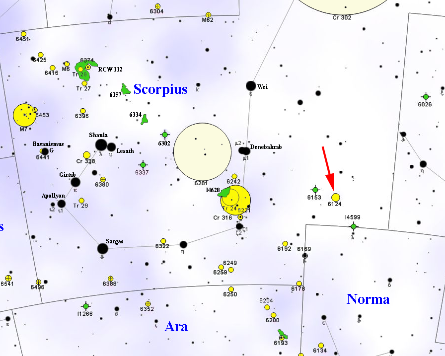 Map of NGC 6124